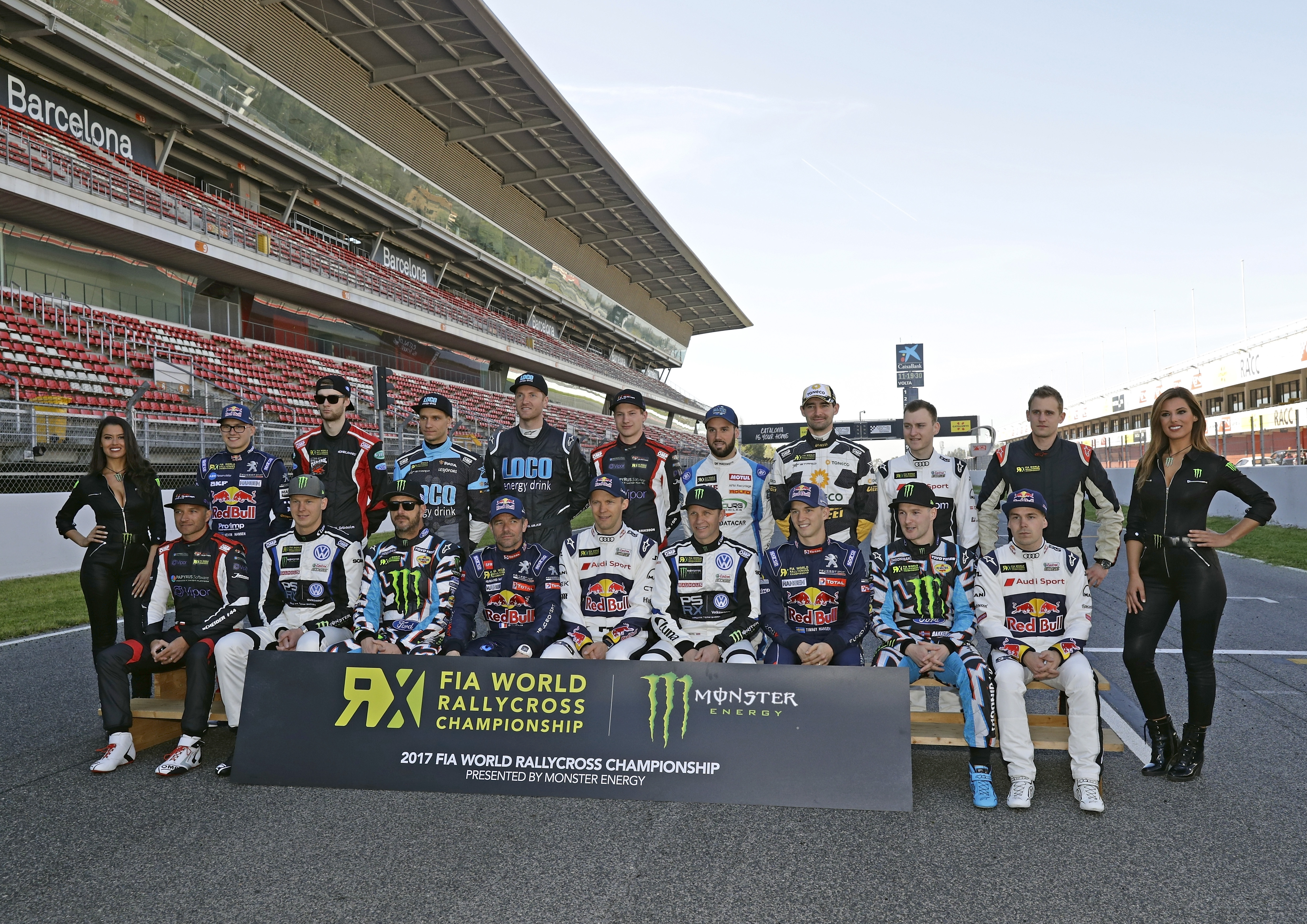 2017 FIA World Rallycross Championship // Round 01, Barcelona // Permanent entries for the 2017 season. Standing (left to right): Kevin Hansen, Niclas Grönholm, Jānis Baumanis, Guy Wilks, Kevin Eriksson, Jean-Baptiste Dubourg, Timur Timerzyanov, Reinis Nitišs and Lukács Kornél. Sitting (left to right): Timo Scheider, Johan Kristoffersson, Ken Block, Sébastien Loeb, Mattias Ekström, Petter Solberg, Timmy Hansen, Andreas Bakkerud and Toomas Heikkinen.